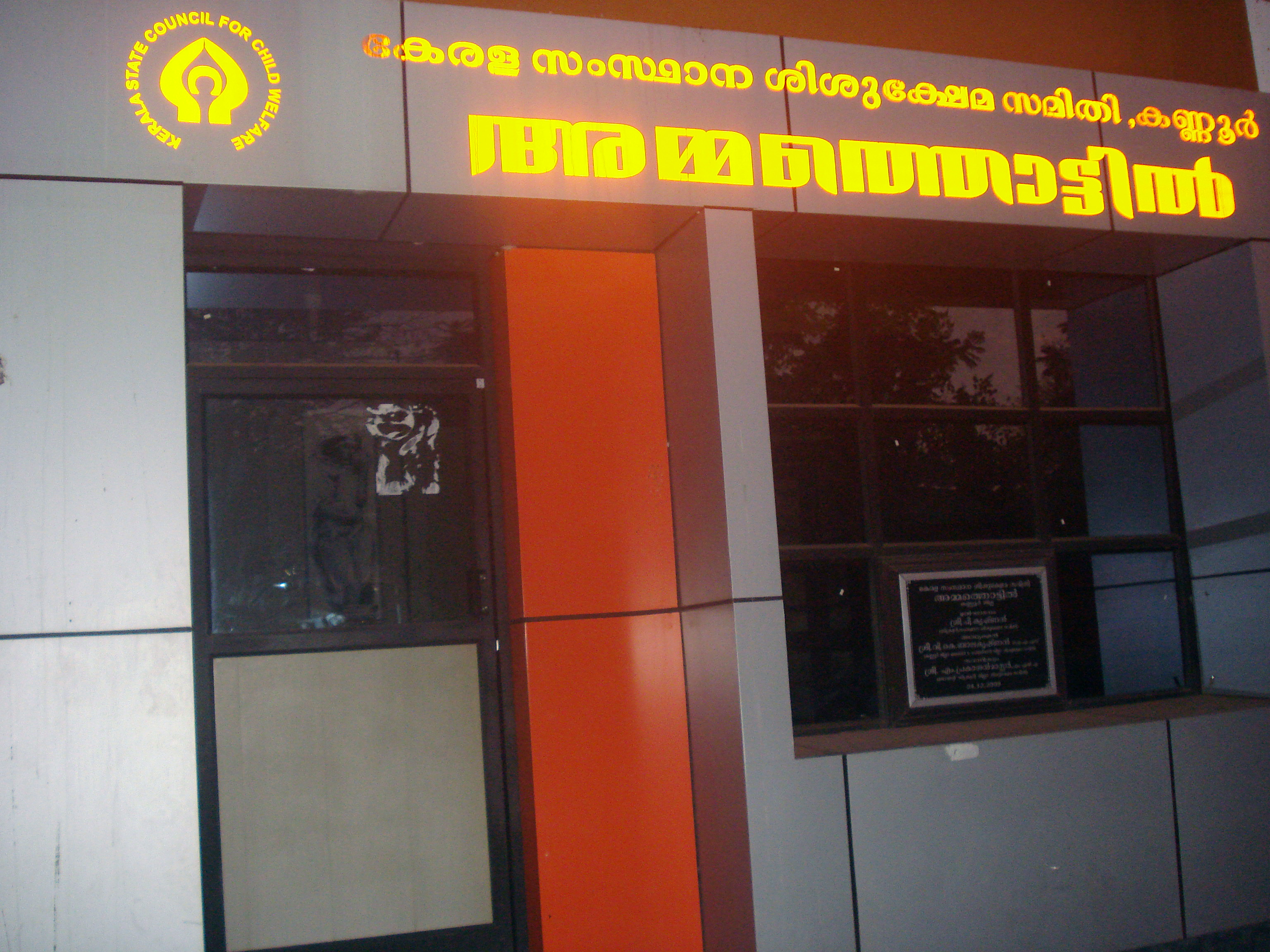 A place to save orphan babies, which is attached to District Hospital, Kannur